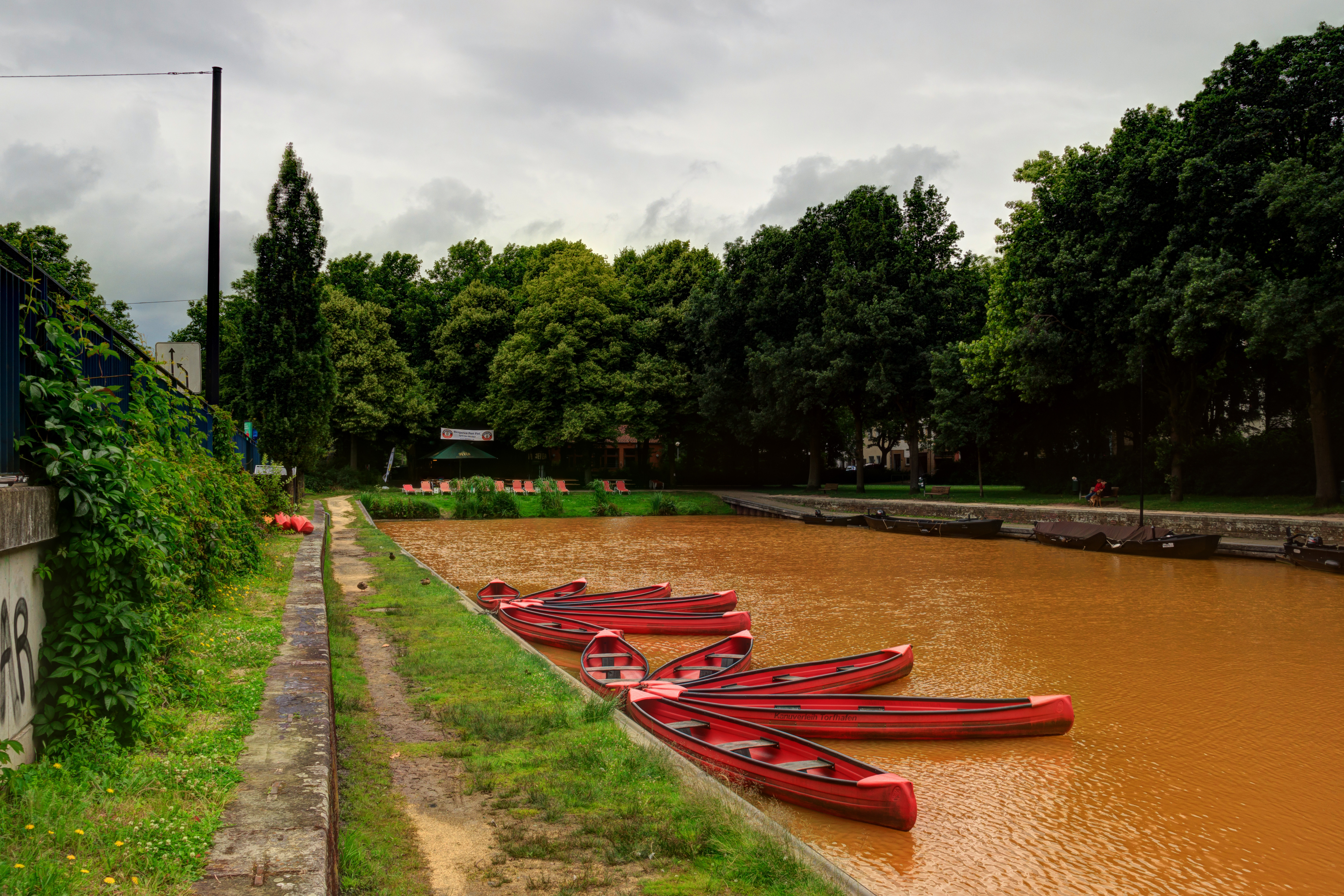 Peat Harbour in Bremen, Germany